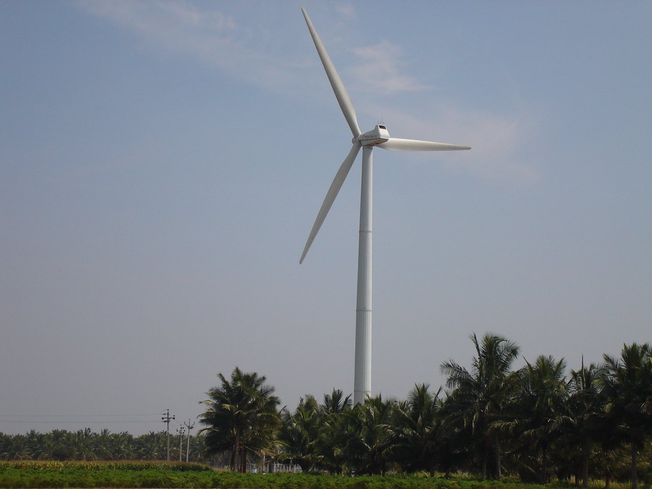 A windmill at Udumalpet near Coimbatore. The windmill farm of which this is a part spans over 100 acres.